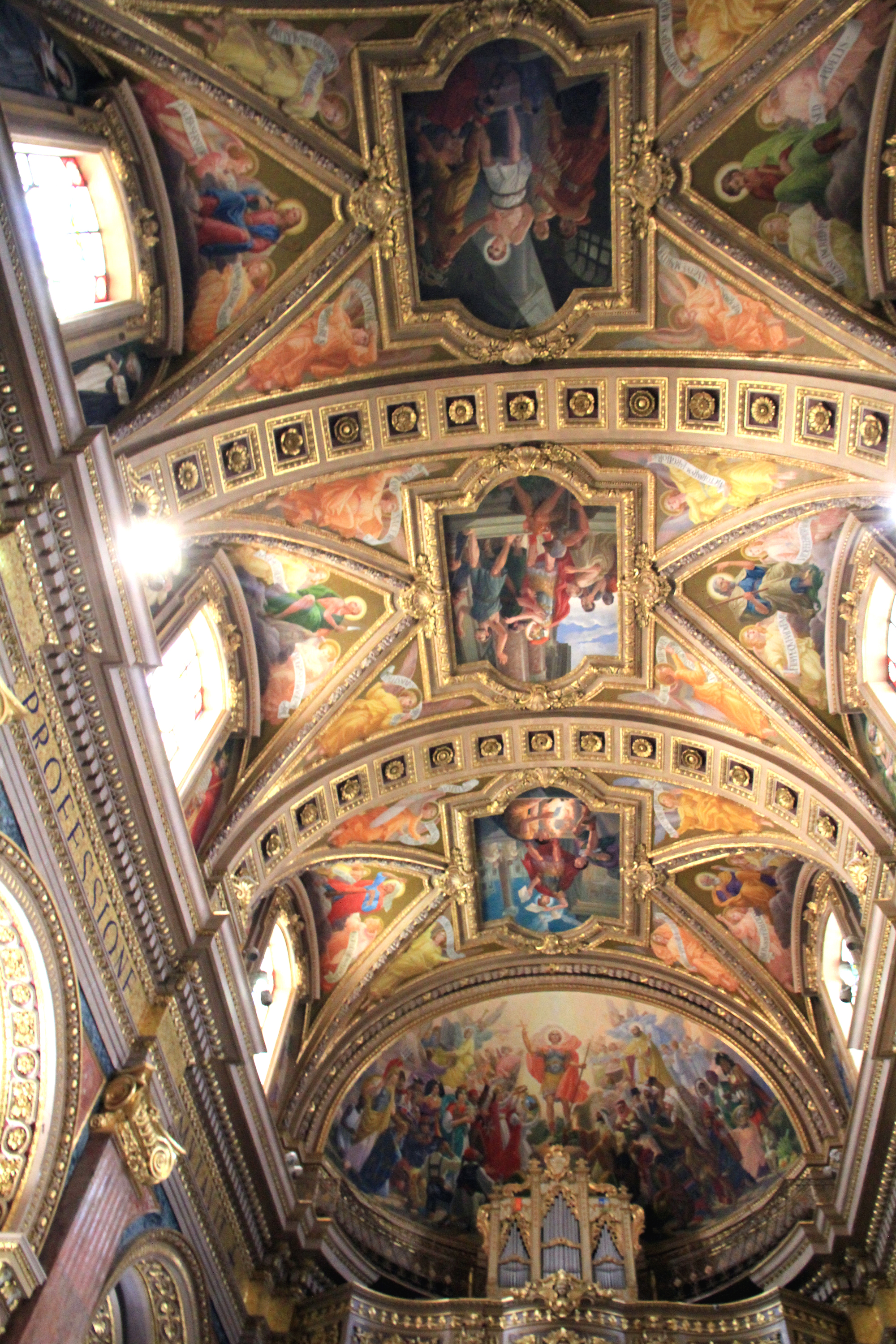 Decoration of ceiling of St. George's Basilica in Victoria - capital of Gozo island, Malta